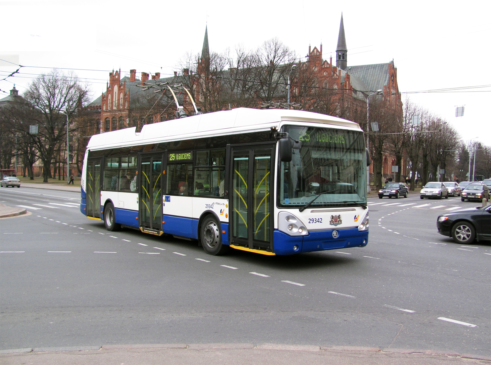 Trolleybus on route No 25 in the centre of Riga.